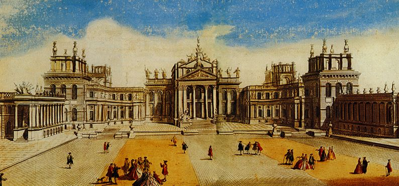 Blenheim Palace: THE GREAT COURT AND NORTH FRONT: AN 18th century engraving